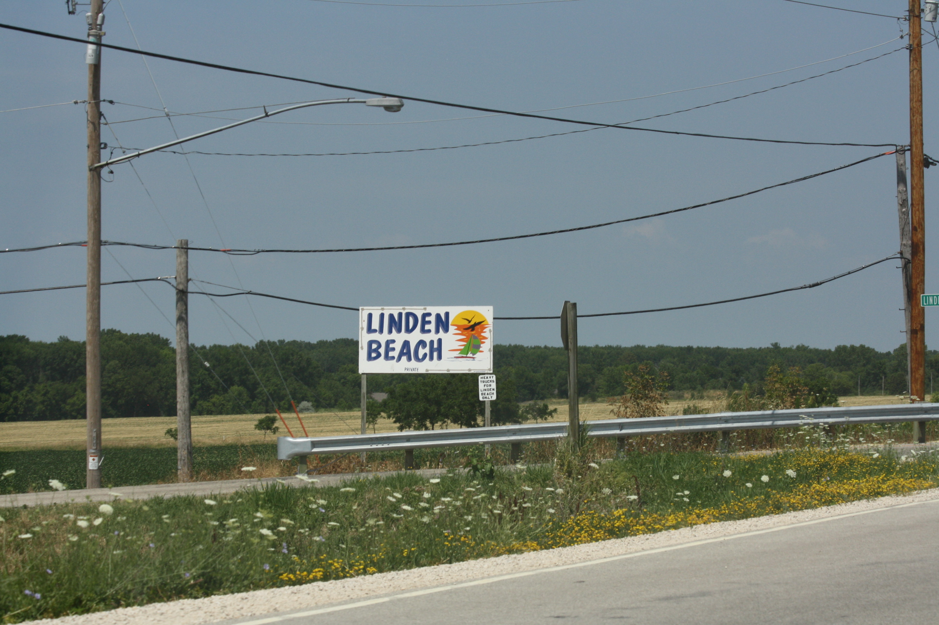 The sign for Linden Beach, Wisconsin.